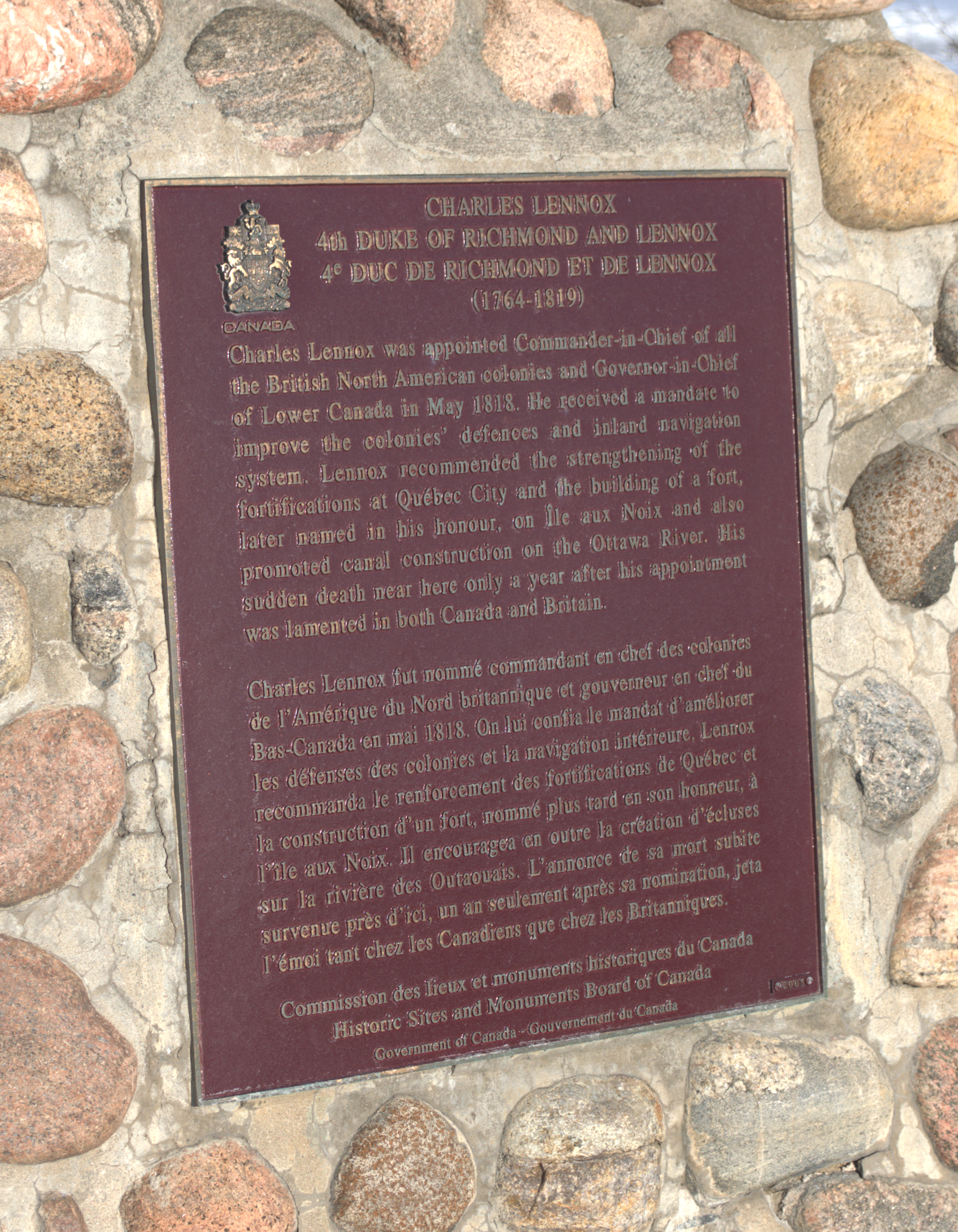 This is the plaque on the 4th Duke of Richmond's cairn.